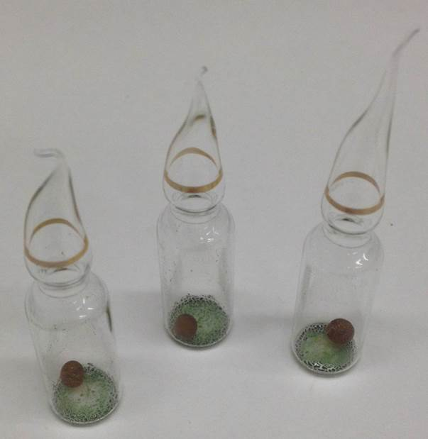 Chrococcidiopsis glass ampoules